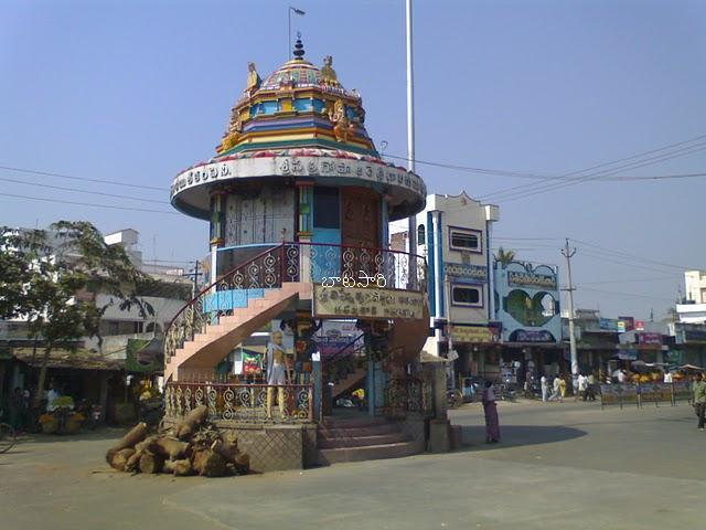 Ganesh Chowk in Nidadavole, West Godavari district